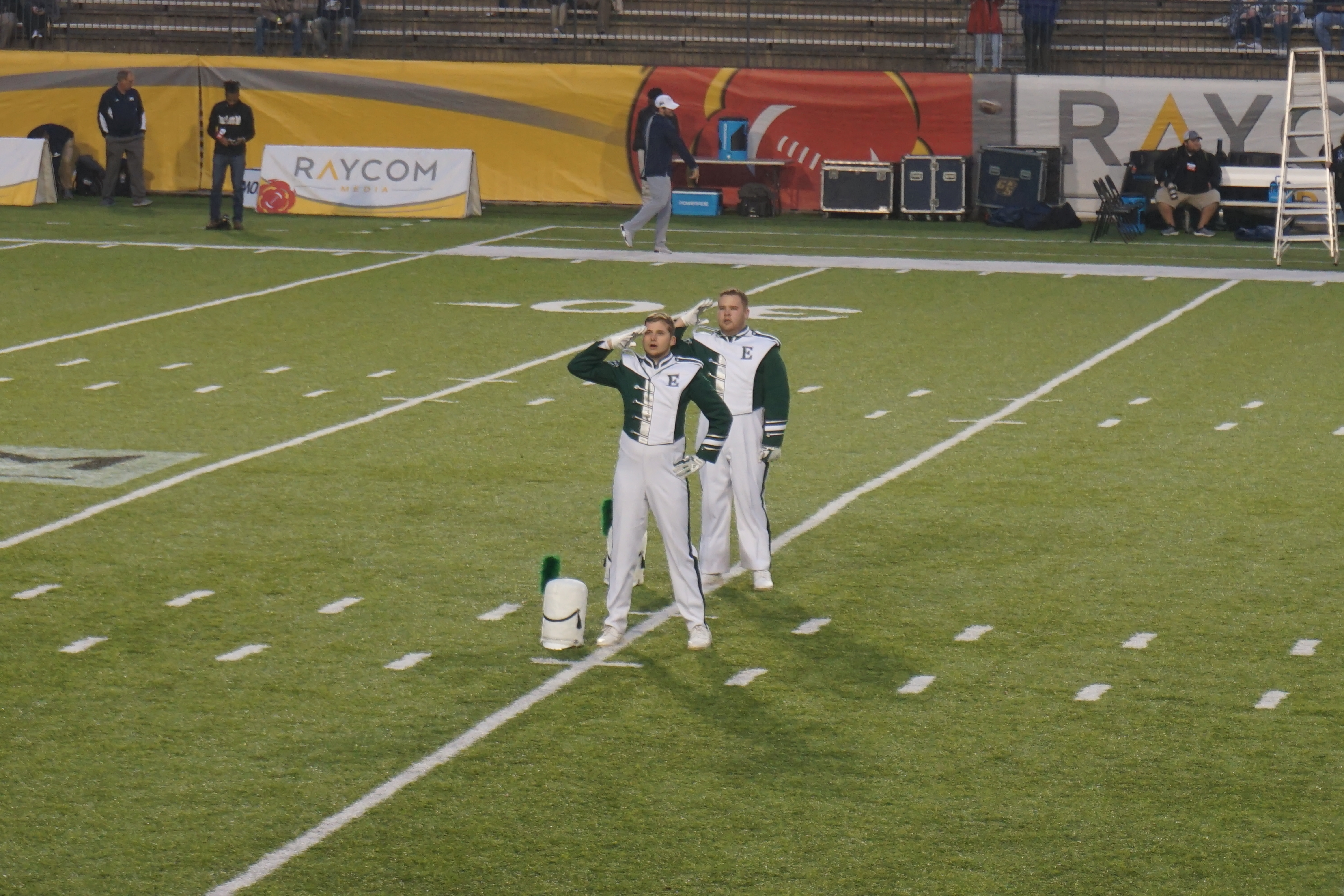 The Eastern Michigan University Marching Band performing before the 2018 Camellia Bowl (Georgia Southern Eagles vs. Eastern Michigan Eagles) at the Cramton Bowl in Montgomery, Alabama (United States). Georgia Southern won 23–21.